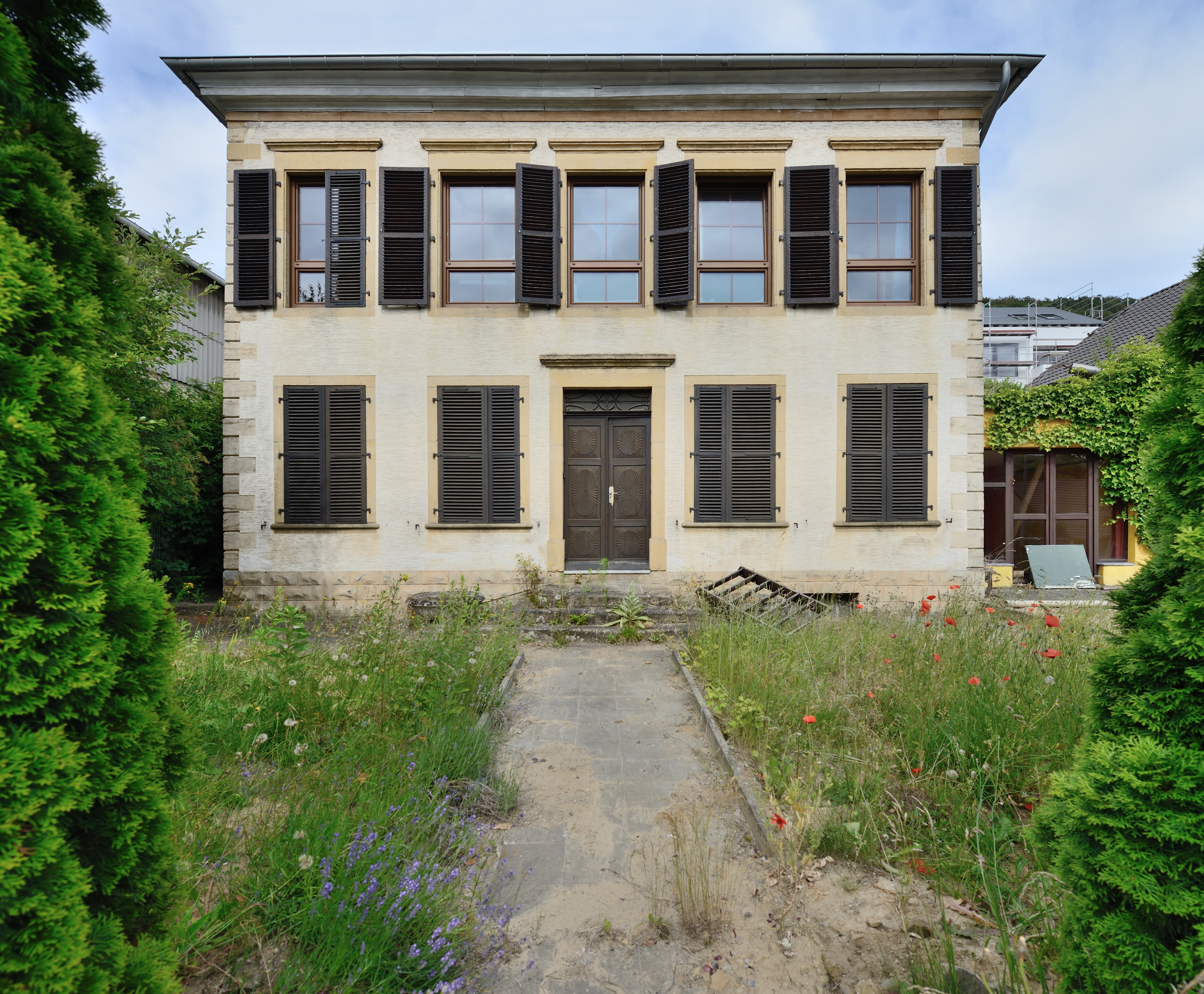 The house of the writer Félix Thyes (1830-1855) in Lintgen, 34 rue Principale. The house is destined to be demolished in 2014.